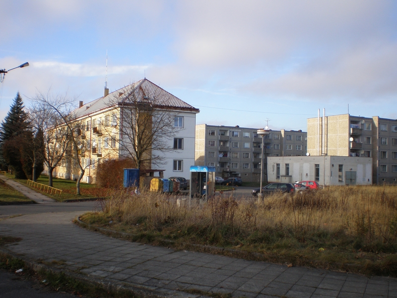 Studánka (Hranice), panel houses estate